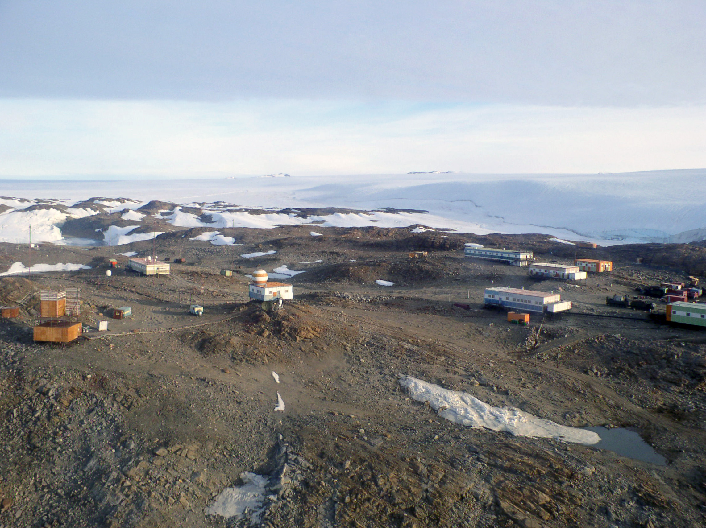 Novolazarevskaya station helicopter photo